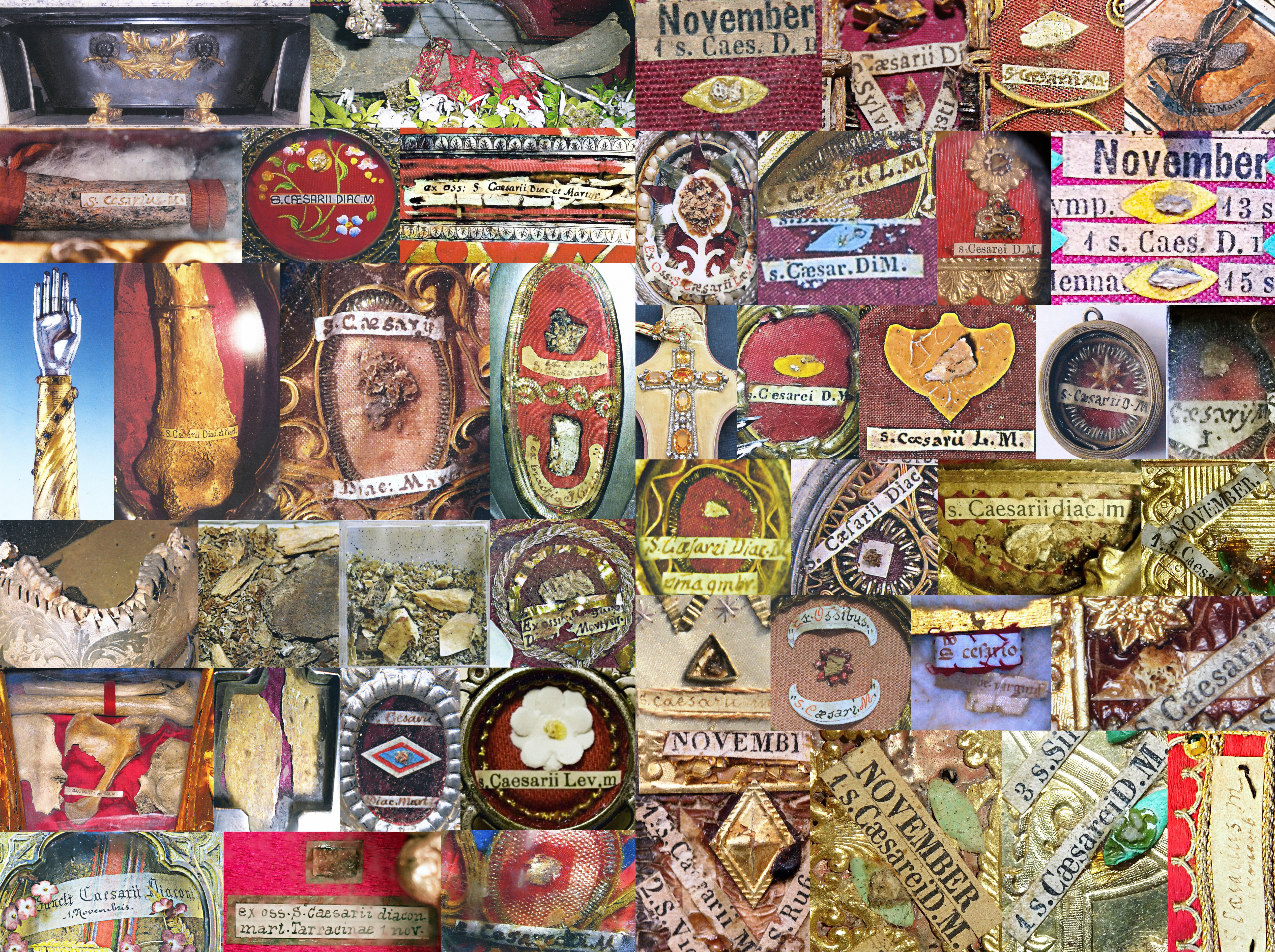 Relic of Saint Caesarius deacon and martyr de Terracina in the world.